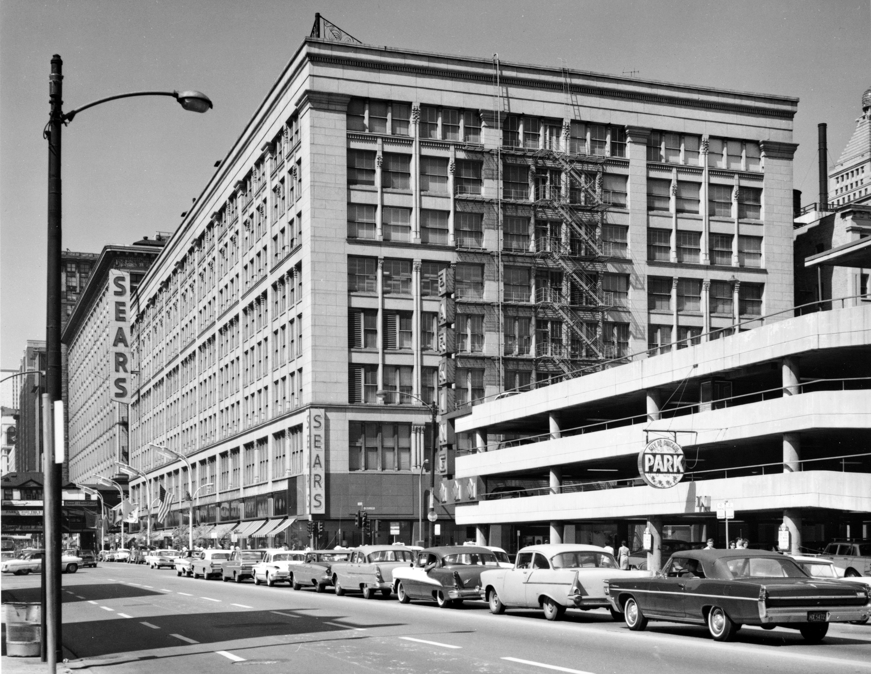 Leiter II Building, South State & East Congress Streets, Chicago, Cook County, IL